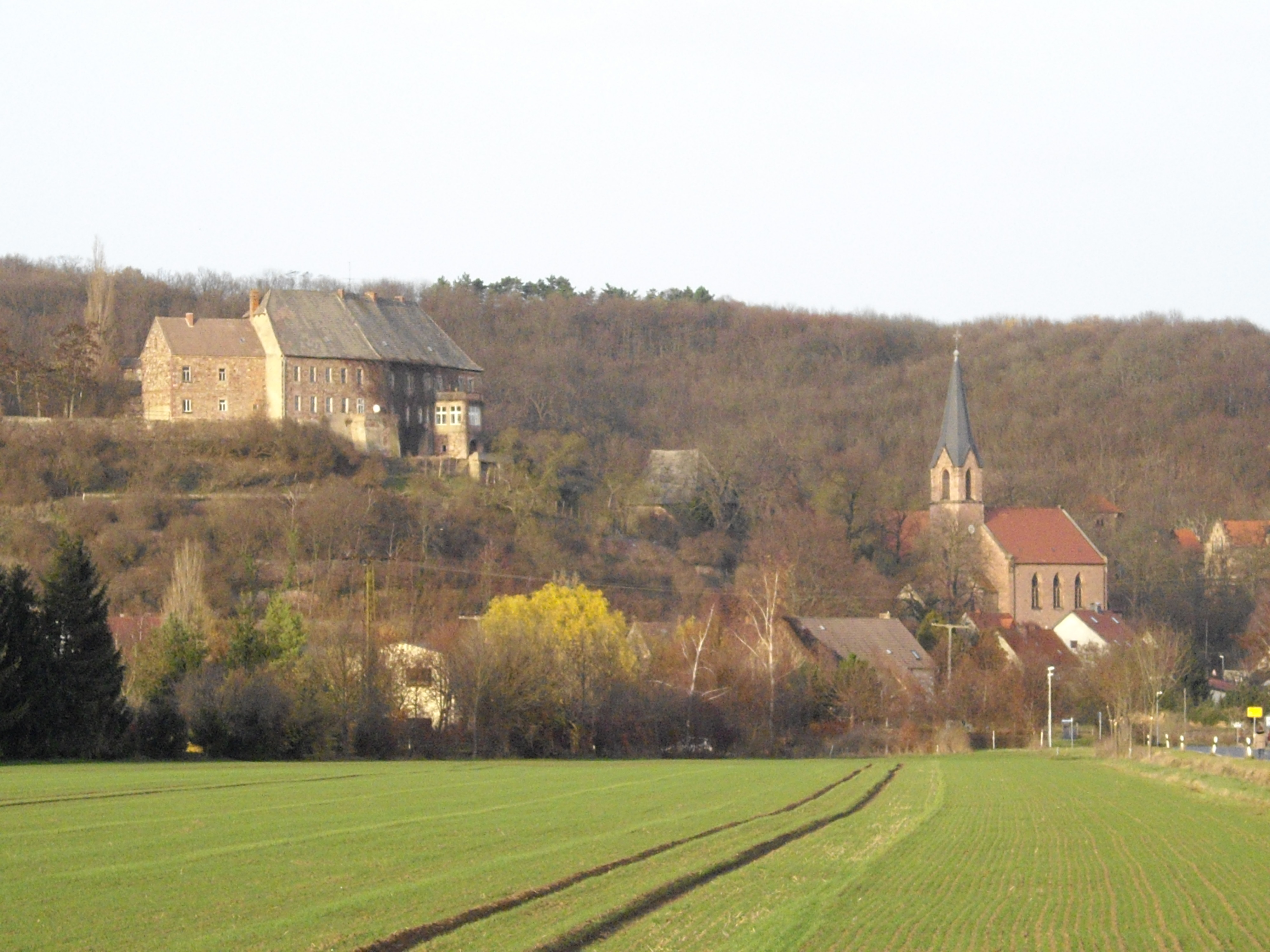 View to Friedeburg (Saale)